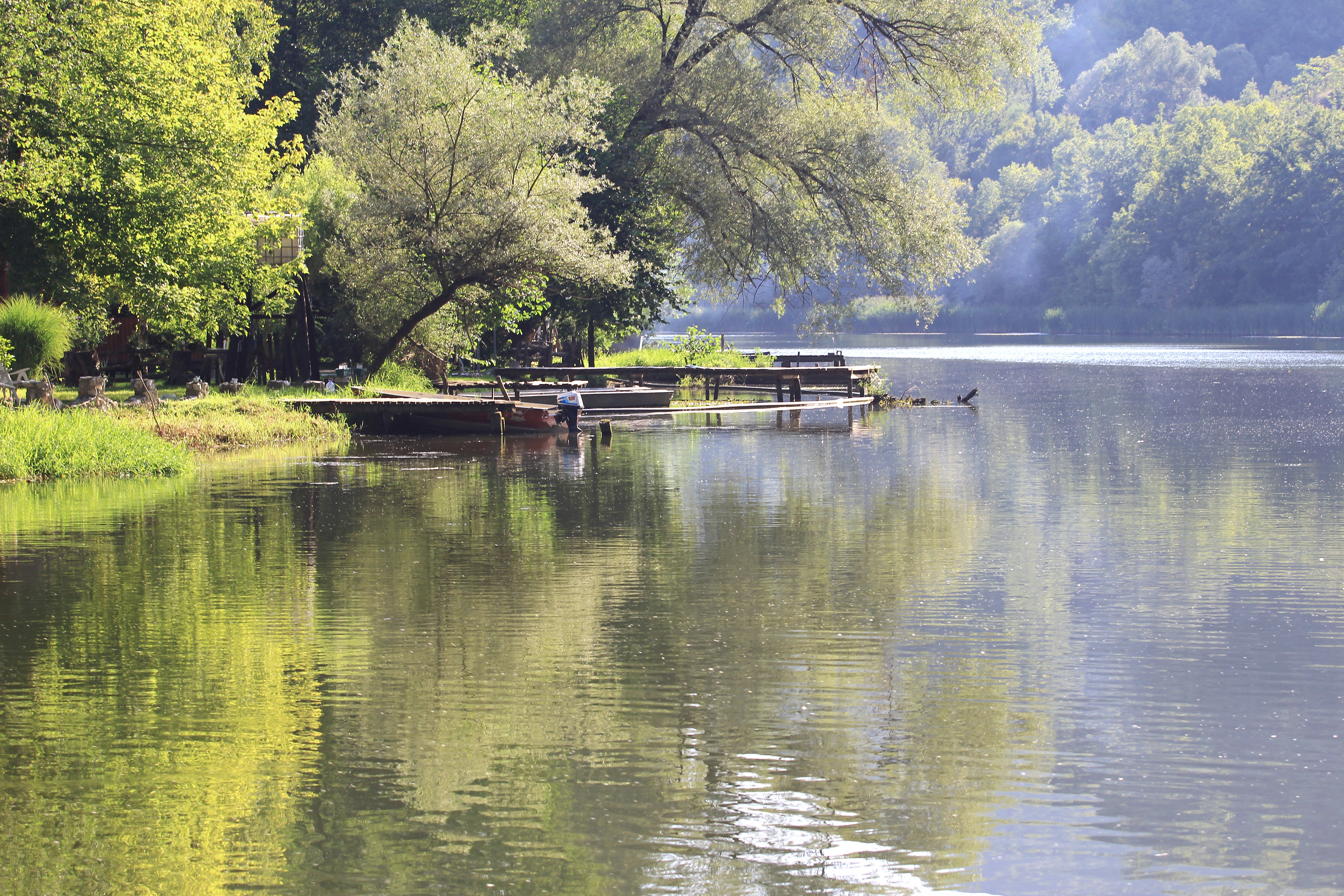 Landscapes of outstanding features - Ovcar-Kablar Gorge, Lake Medjuvrsje, Serbia